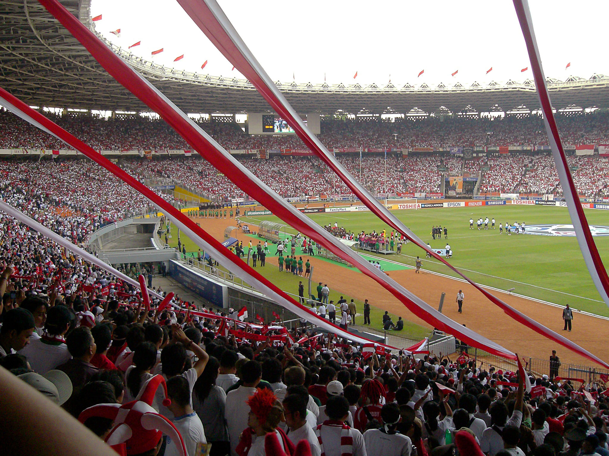 Gelora Bung Karno, Senayan, Jakarta, Indonesia Indonesian spectator flooded Gelora Bung Karno Stadium during soccer match between Indonesia vs South Korea in 2007 AFC Asian Cup, Jakarta, Indonesia.